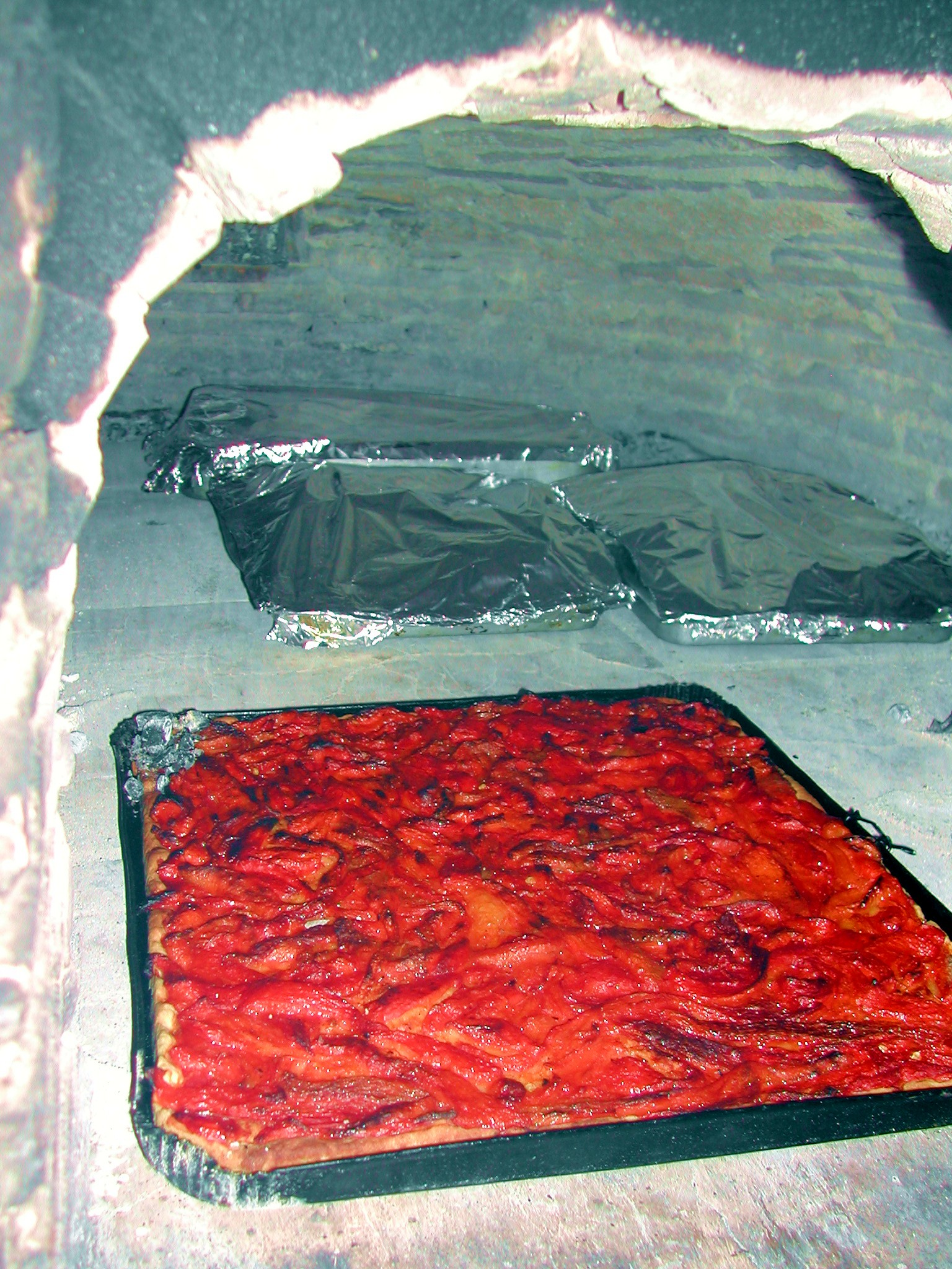 Mallorcan red pepper cake and the wood oven, Mallorca.